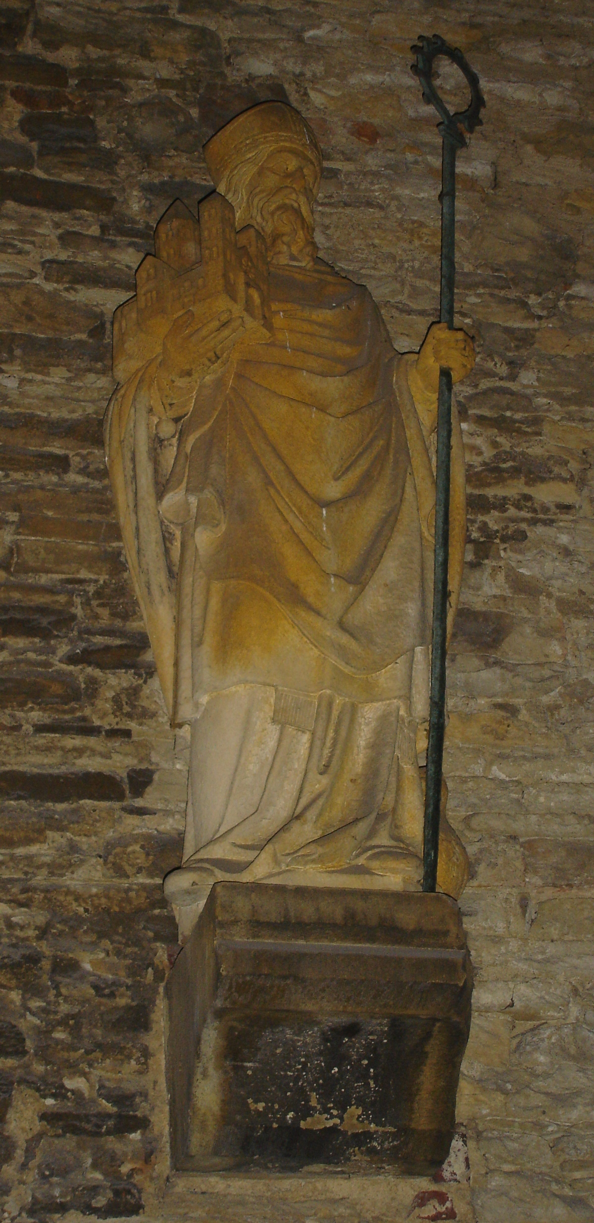 A statue showing bishop Ludgerus on the north wall of the historical city hall in Münster, Westphalia, Germany